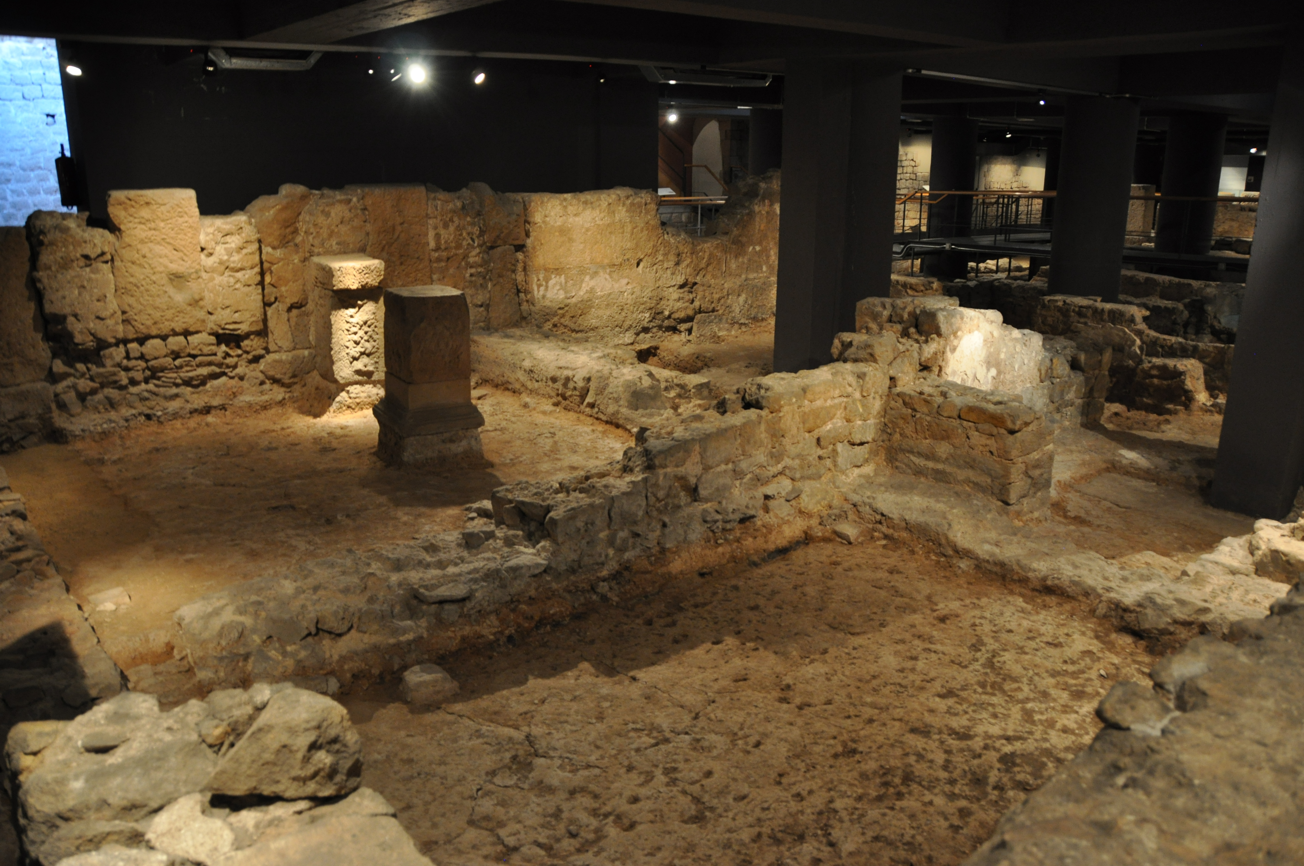 MUHBA Barcelona arcaeological underground tabernae at the cardo minor